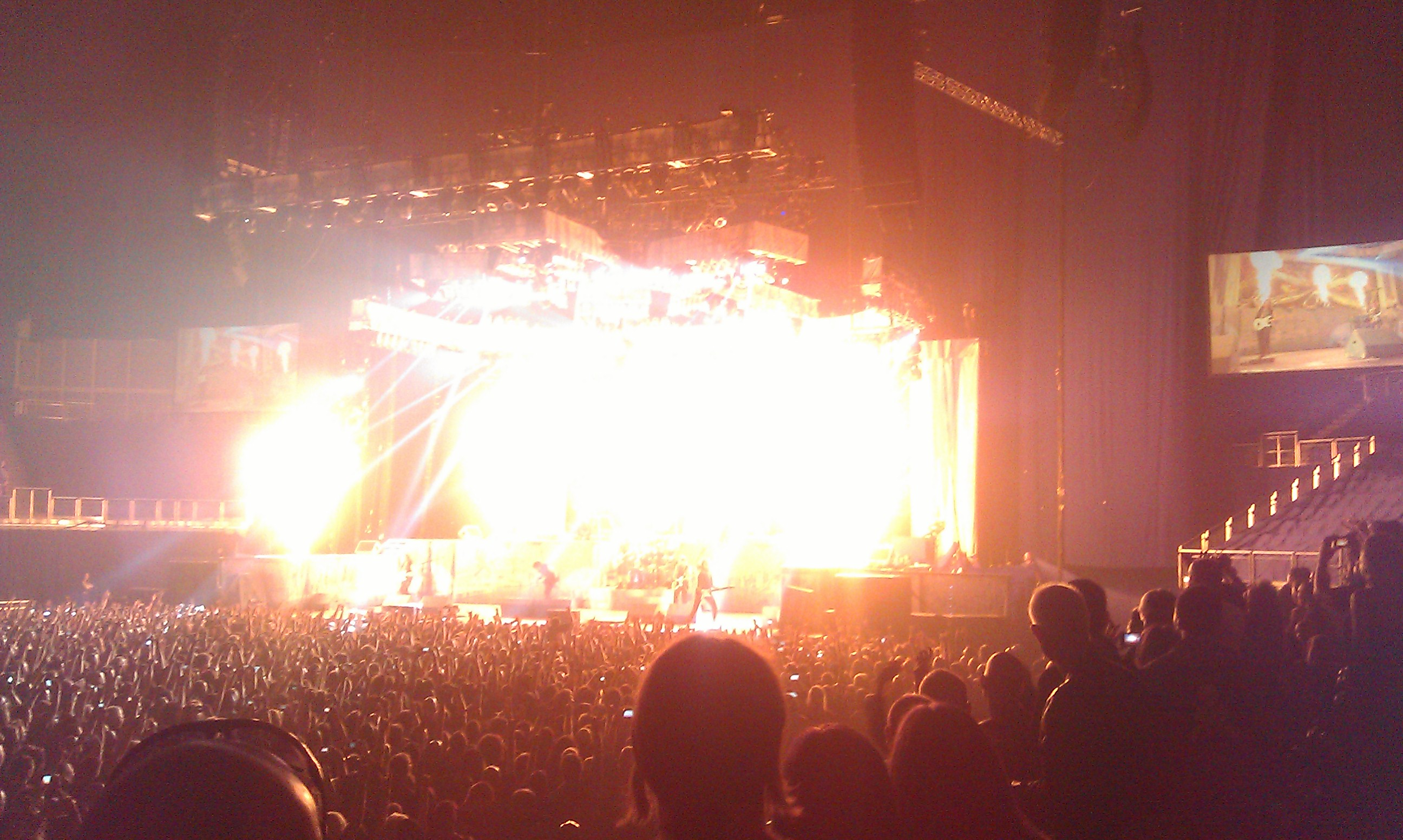 Iron Maiden